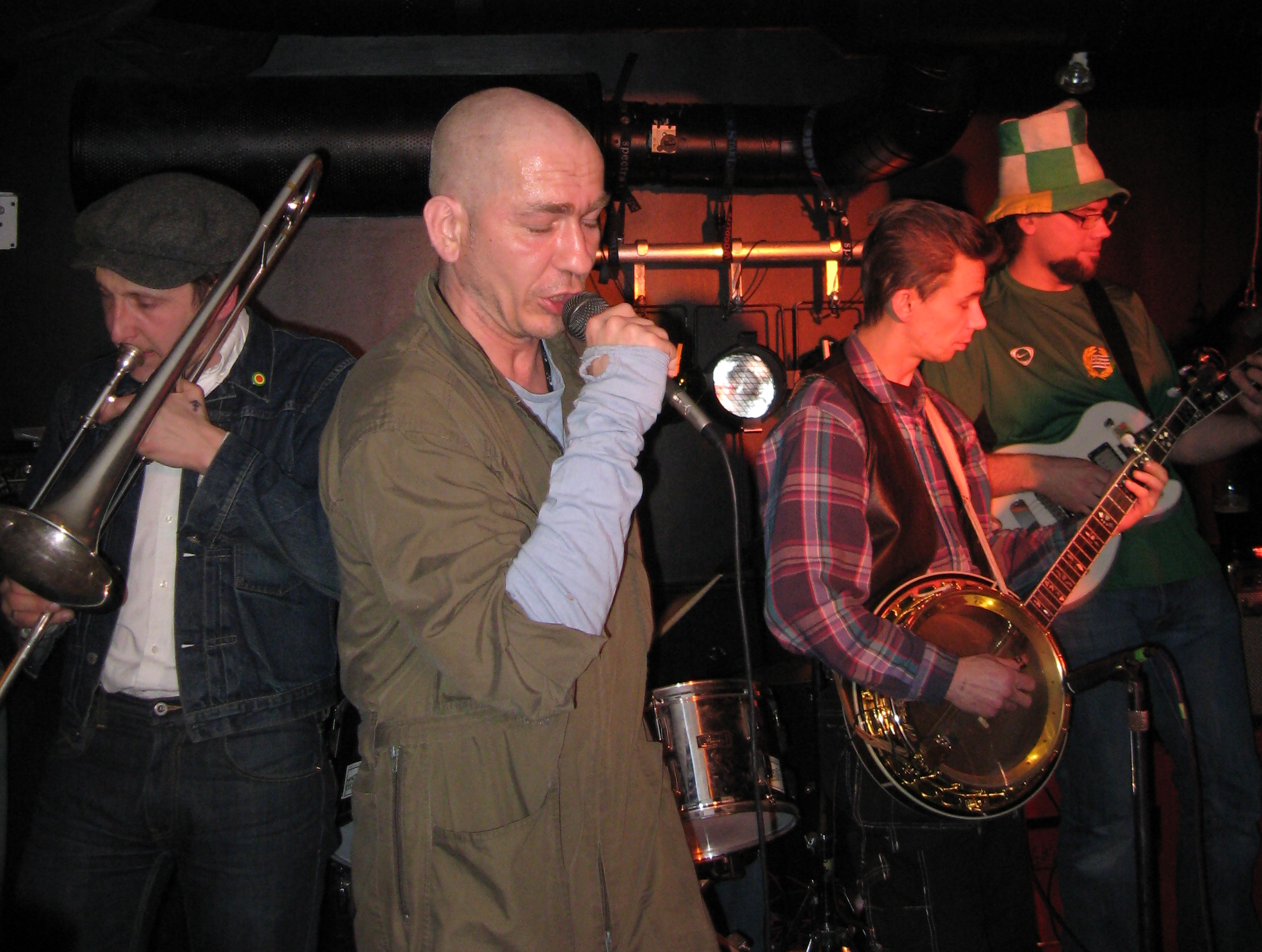 Molly playing in Stockholm 17 March, 2008.